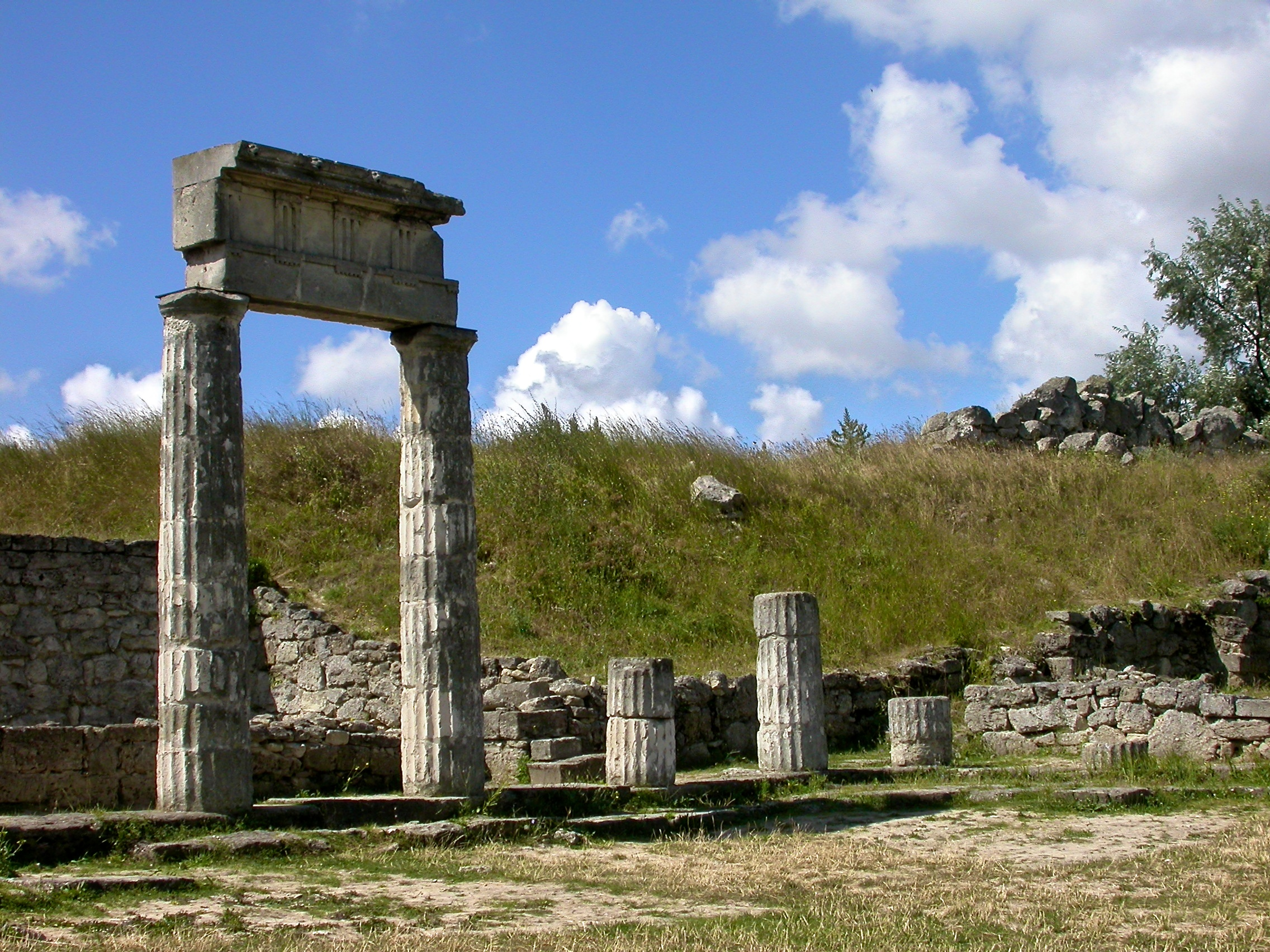 Prytaneion of Panticapaeum, II b.c. (Kerch, Ukraine)